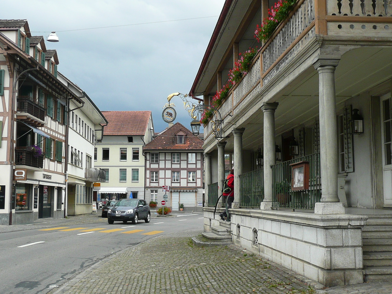 Place and front of historical hotel Gasthof Bären